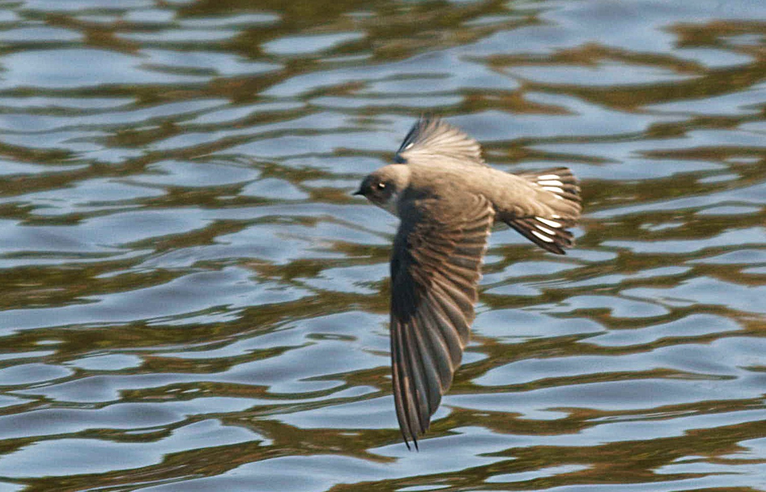 Eurasian Crag Martin (Ptyonoprogne rupestris) in flight.